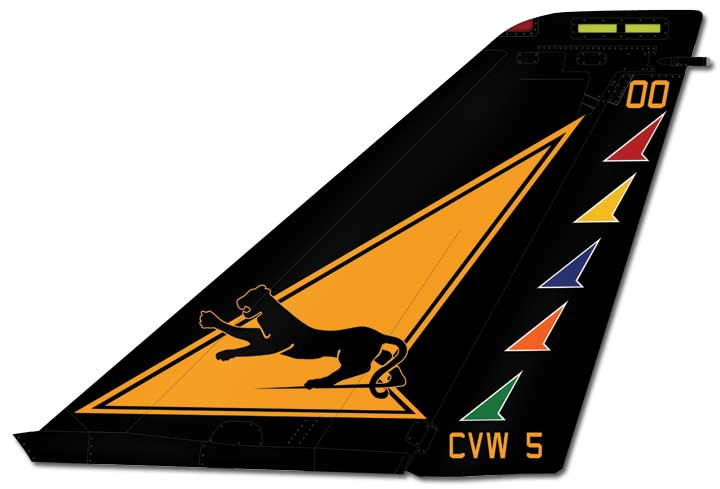 The tail of a US Navy F-14A Tomcat, belonging to VF-21, the "Fighting Freelancers". Original created in Adobe Photoshop by Erik Hess in 2004.